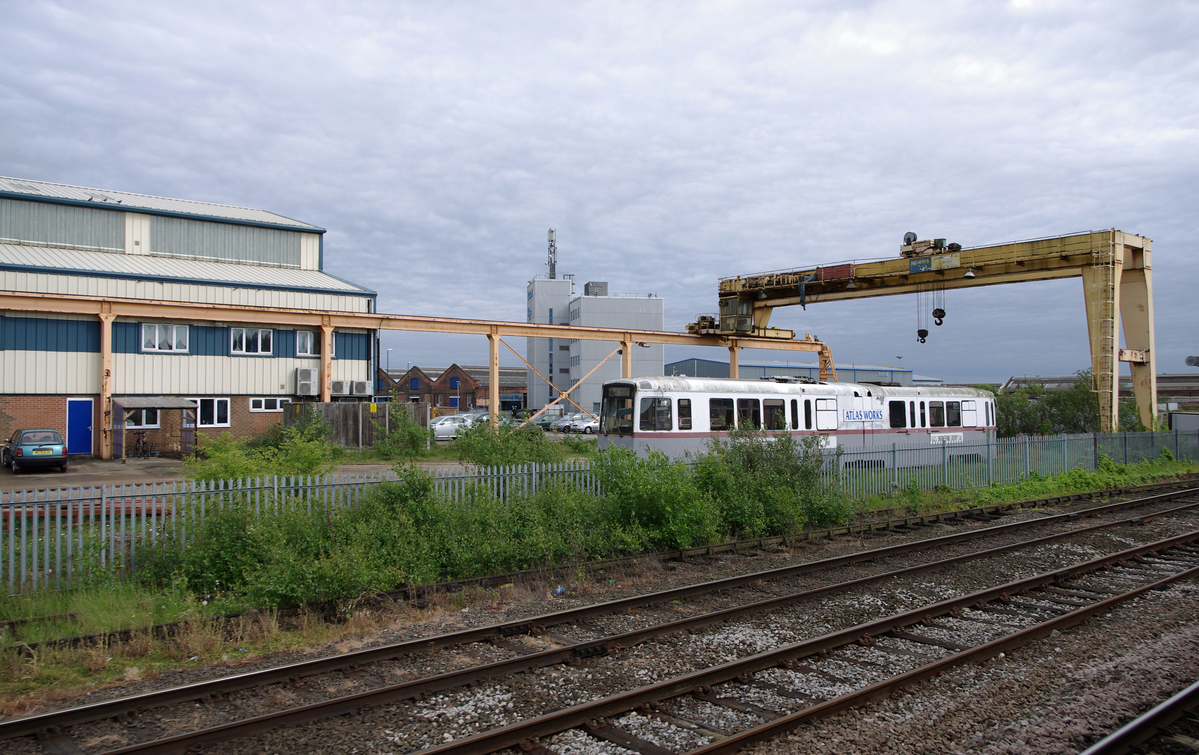 Bombardier's Derby Litchurch Lane works, viewed from a passing train on the Cross Country Route.